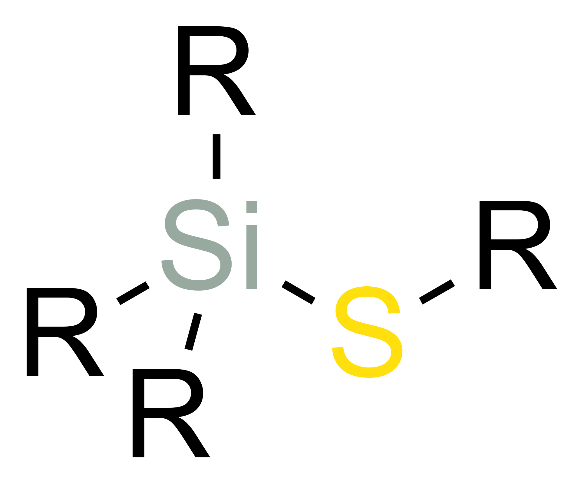 General structural formula of thiosilanes, compounds containing one silicon-sulfur single bond. Image generated in ChemDraw Professional 15.0.